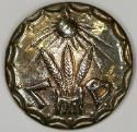 Reifensteiner Schule Schulnadel Beinrode Fotografin Lücke